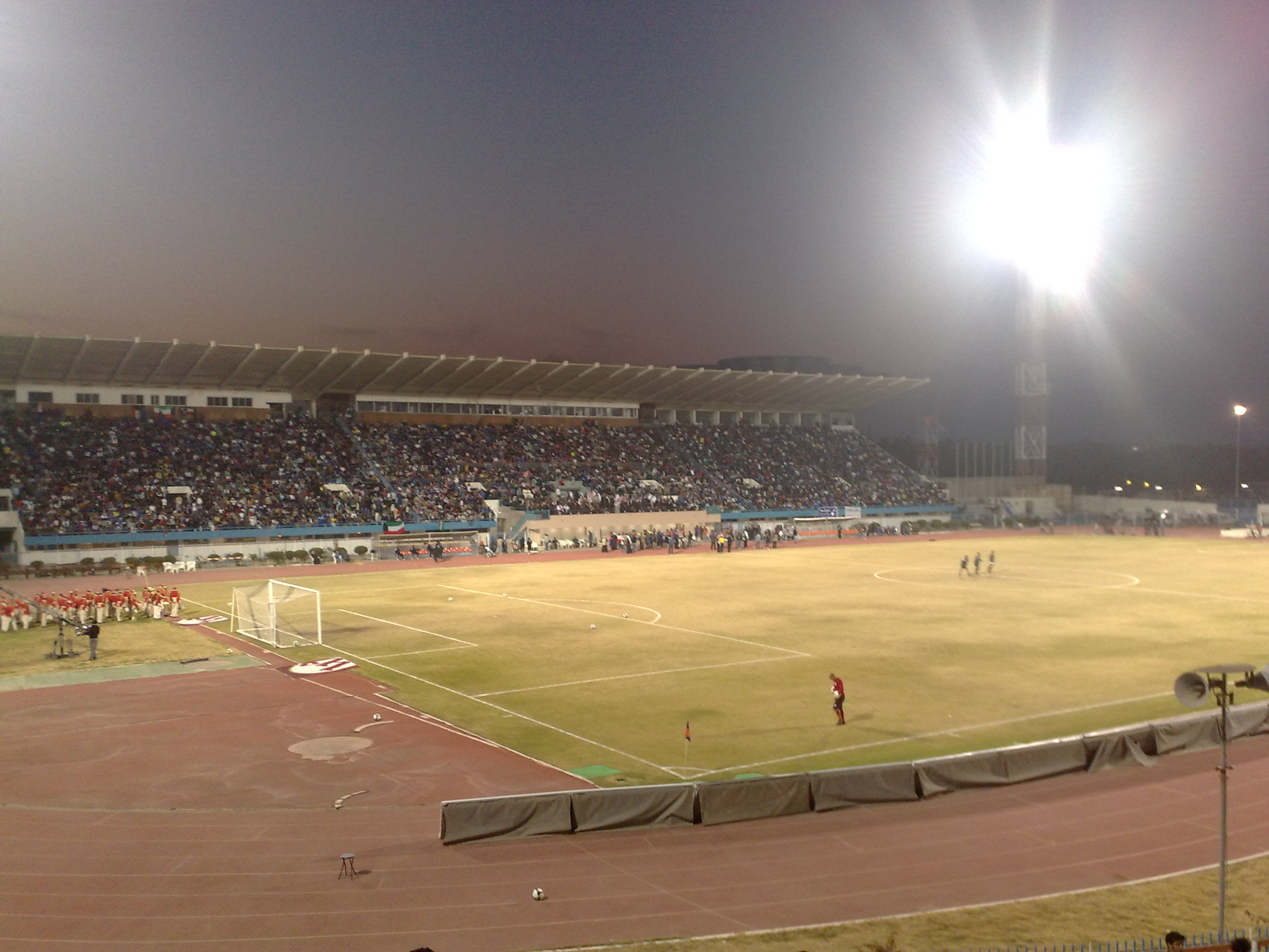 Kazma Sporting Club Stadium